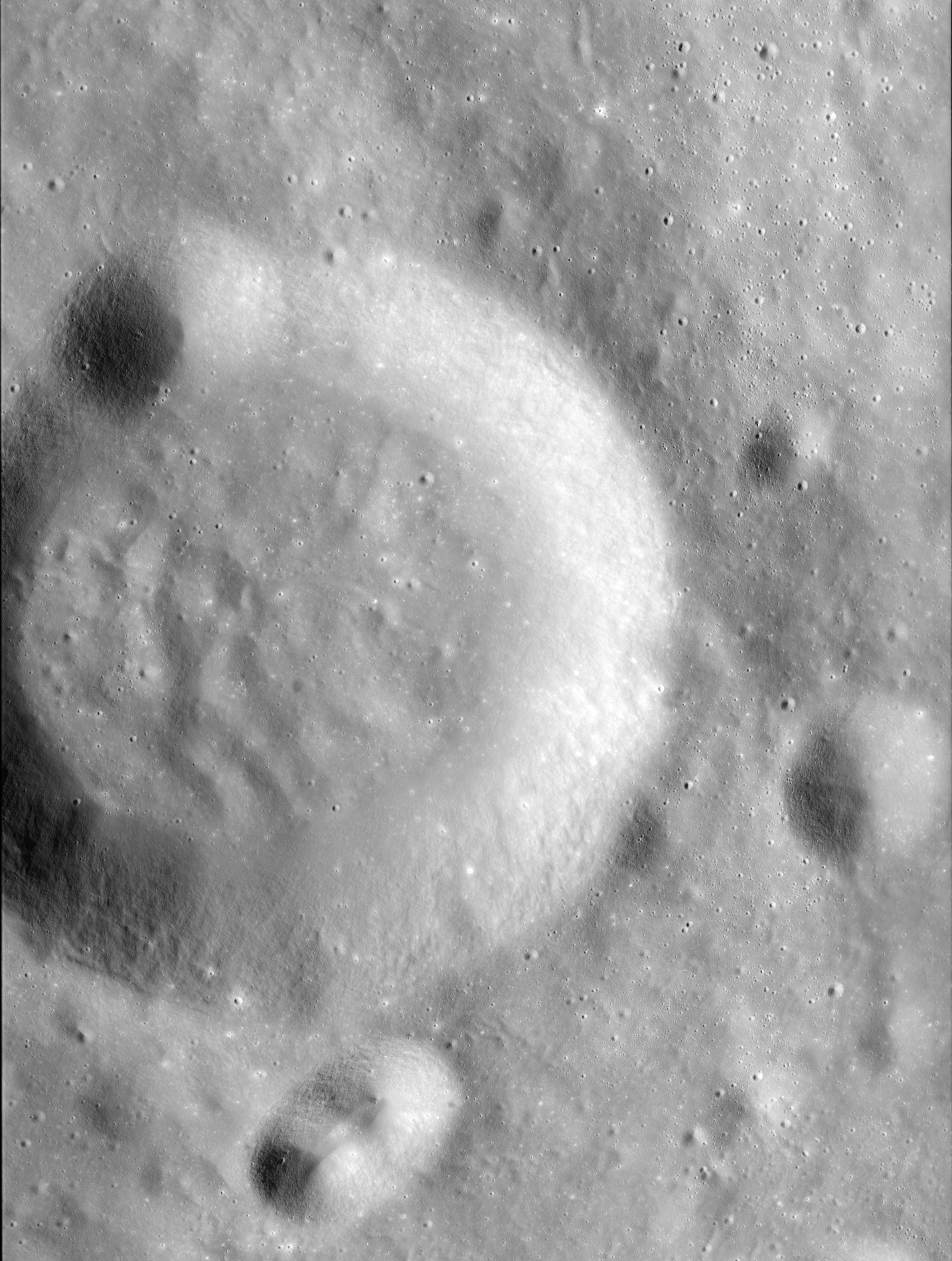 Slightly oblique view of most of Kosberg, on the far side of the moon, with north at top.